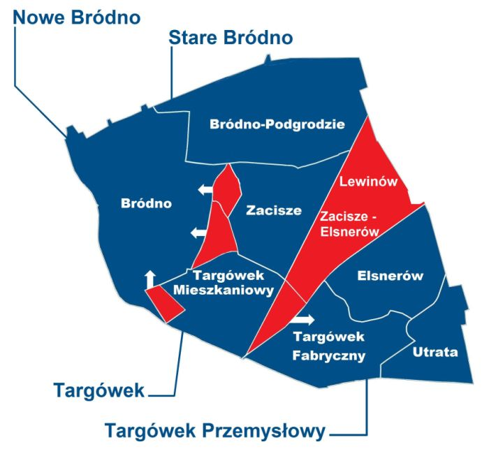 Targówek district